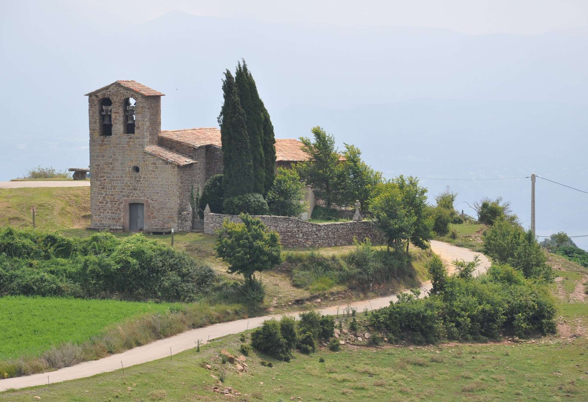 Sant Cugat de Gavadons, a 12th century church in the municipality of Collsuspina (Osona, Catalonia, Spain).